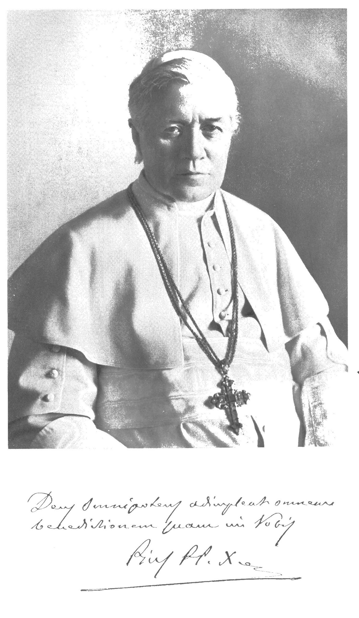 Book X. Pius pápa from Czaich and Frater, Budapest 1907, picture and signature of Pius X